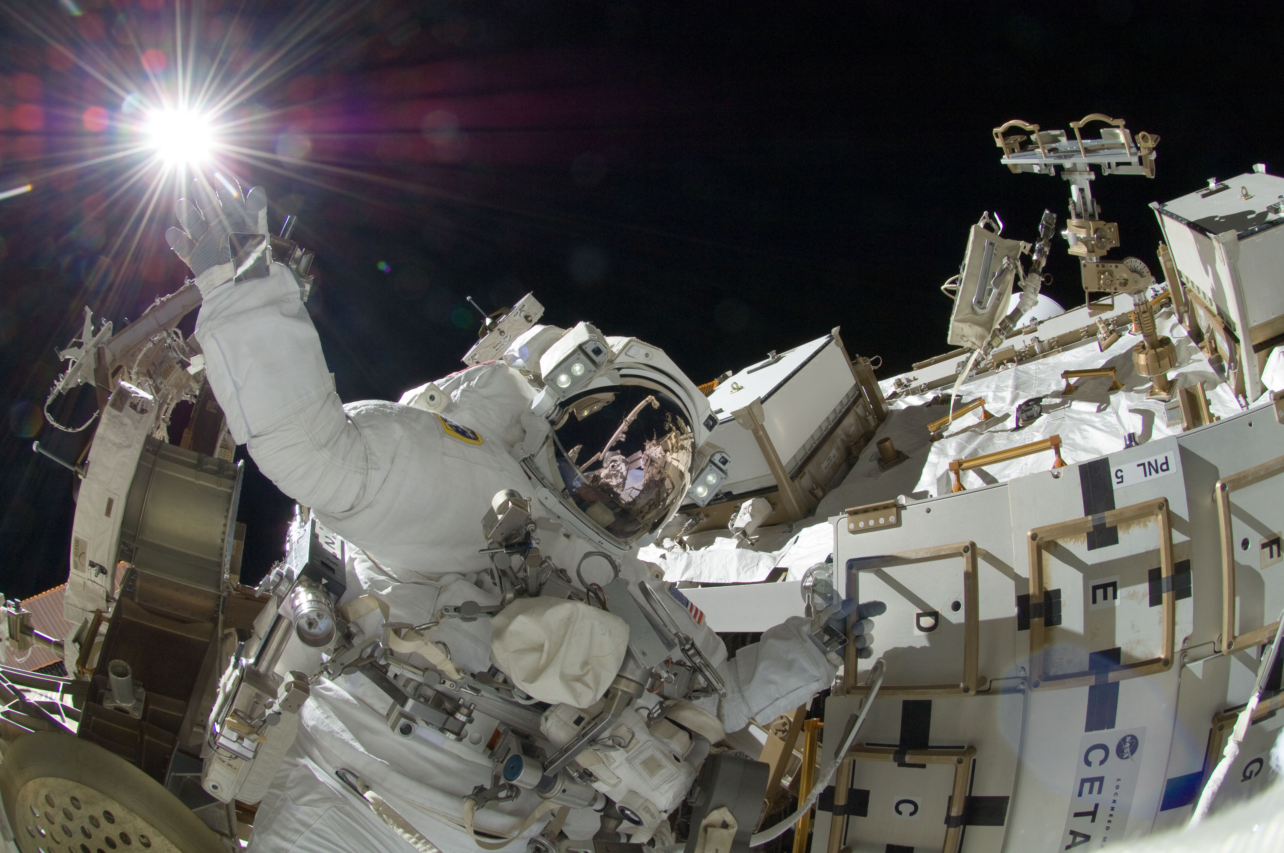 NASA astronaut Sunita Williams, Expedition 32 flight engineer, appears to touch the bright sun during the mission's third session of extravehicular activity (EVA). During the six-hour, 28-minute spacewalk, Williams and Japan Aerospace Exploration Agency astronaut Aki Hoshide (visible in the reflections of Williams' helmet visor), flight engineer, completed the installation of a Main Bus Switching Unit (MBSU) that was hampered last week by a possible misalignment and damaged threads where a bolt must be placed. They also installed a camera on the International Space Station's robotic arm, Canadarm2.